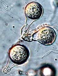 light microscope oospores of Phytophthora agathidicida